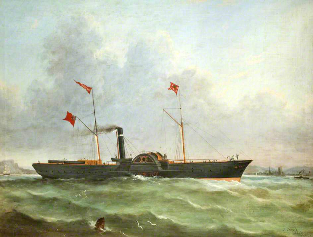 Royal Consort Paddle Steamer, by Joseph Semple (1830–1877). Fleetwood Museum. Oil on canvas, H 50.5 x W 88 cm